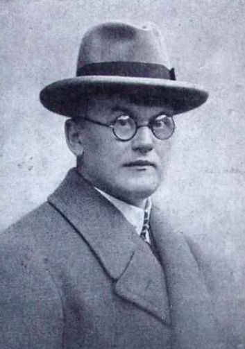 František Dedrle – Moravian chess composer and chess player